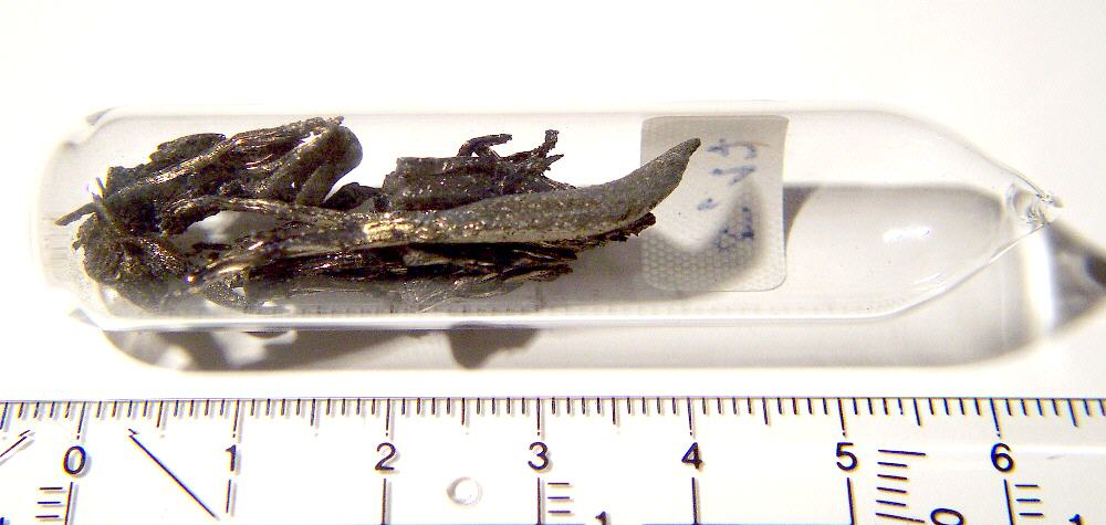 Europium sublimed dendritic, purity 99,998%, 5,17g under argon in a vial